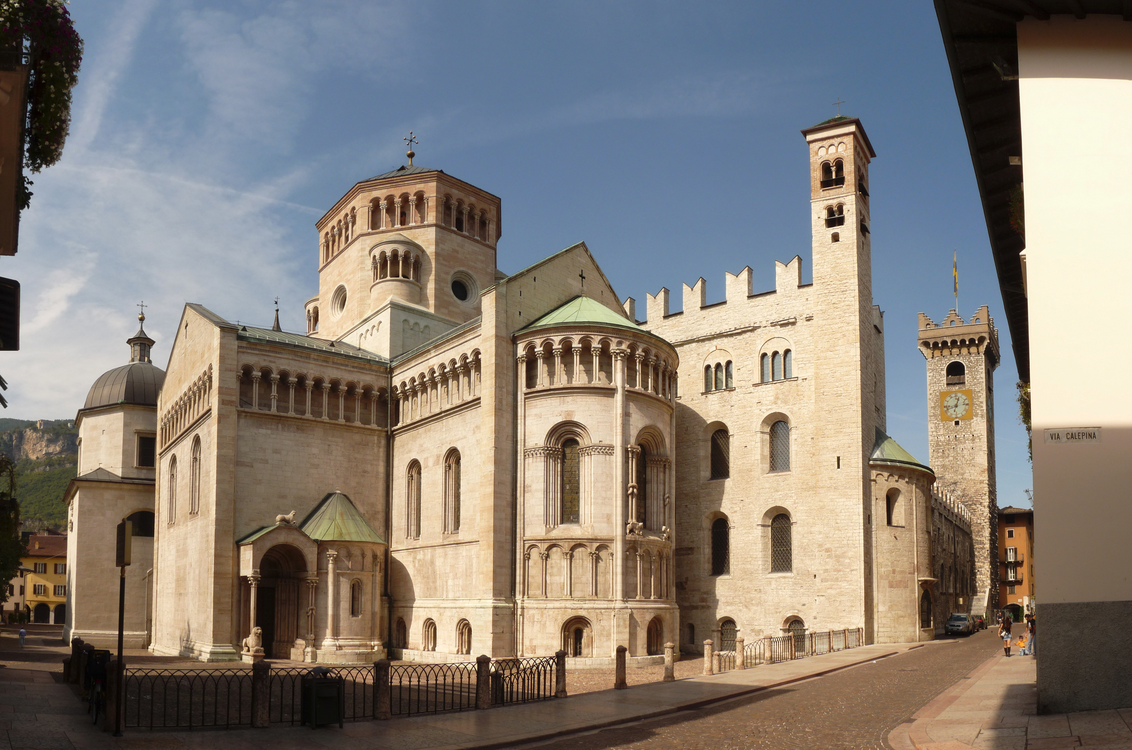 Trento (Italy): eastern side of the cathedral of Saint Vigilius, with the Saint Romedio church tower, the Castelletto del Vescovo and the Torre Civica (civic tower)